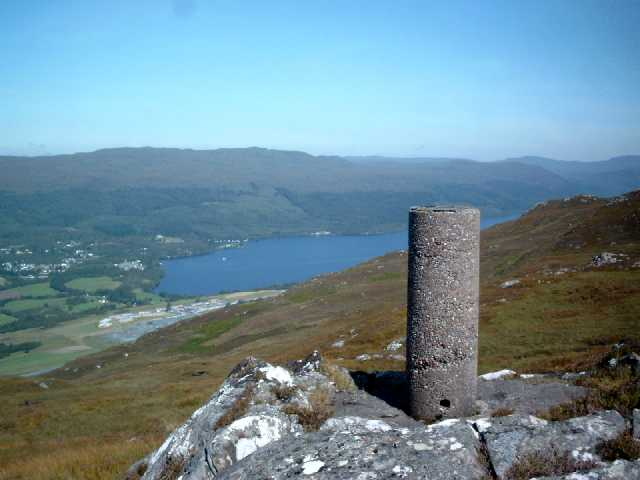 Great Glen Project Station M This triangulation pillar was one of around sixteen built for a special survey of the Great Glen in the 1970s. These pillars were not part of the retriangulation of Great Britain and therefore do not appear on any maps. Cylindrical trig pillars were referred to by the OS as 'Vanessa' columns. This pillar has OSBM flush bracket number 11881. The photograph overlooks Fort Augustus and the SW end of Loch Ness. These hills are very rough terrain but the panoramic views are well worth the effort.